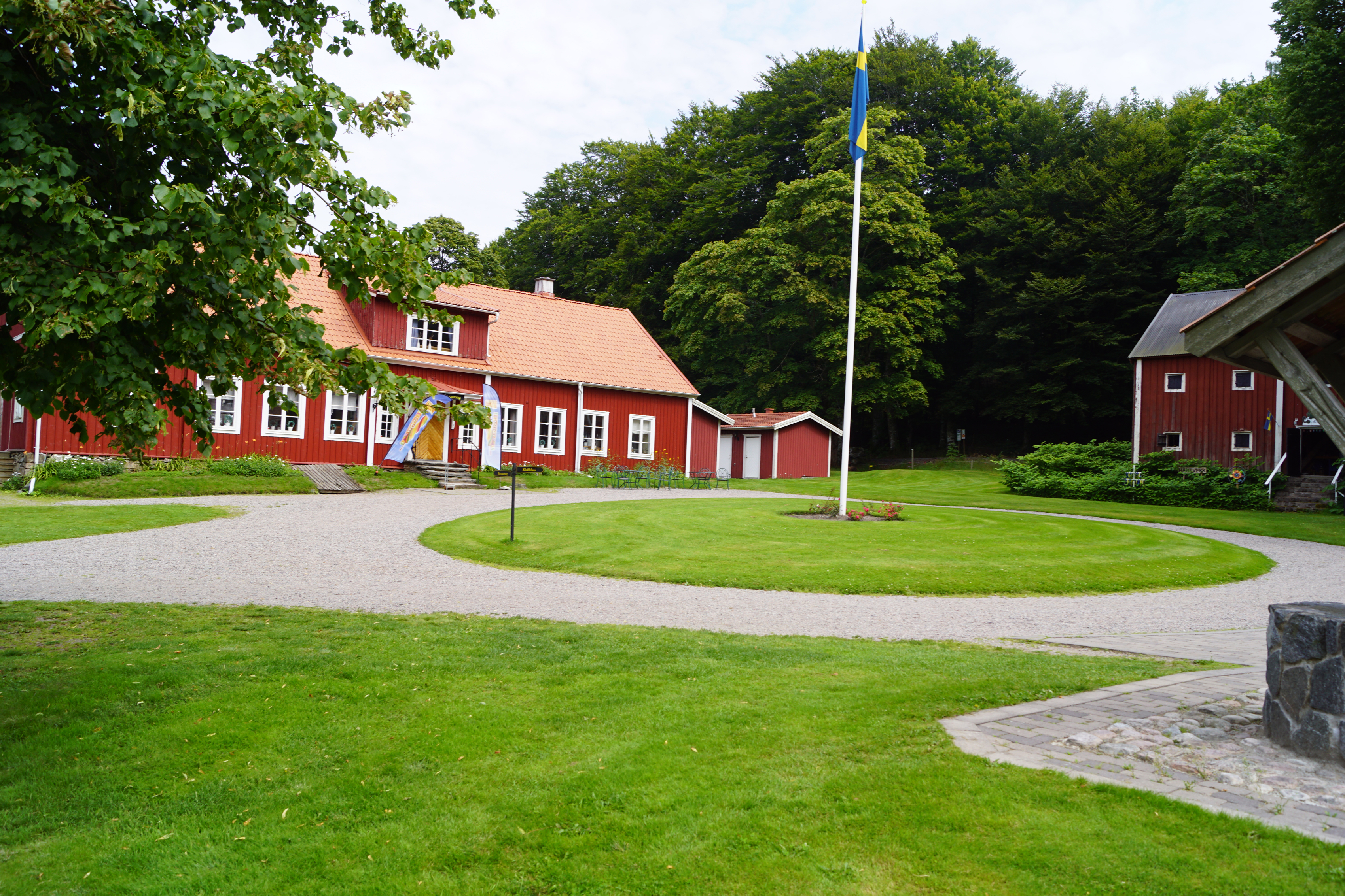 Alvhem seat farm in Skepplanda socken, Ale Municipality, Sweden.